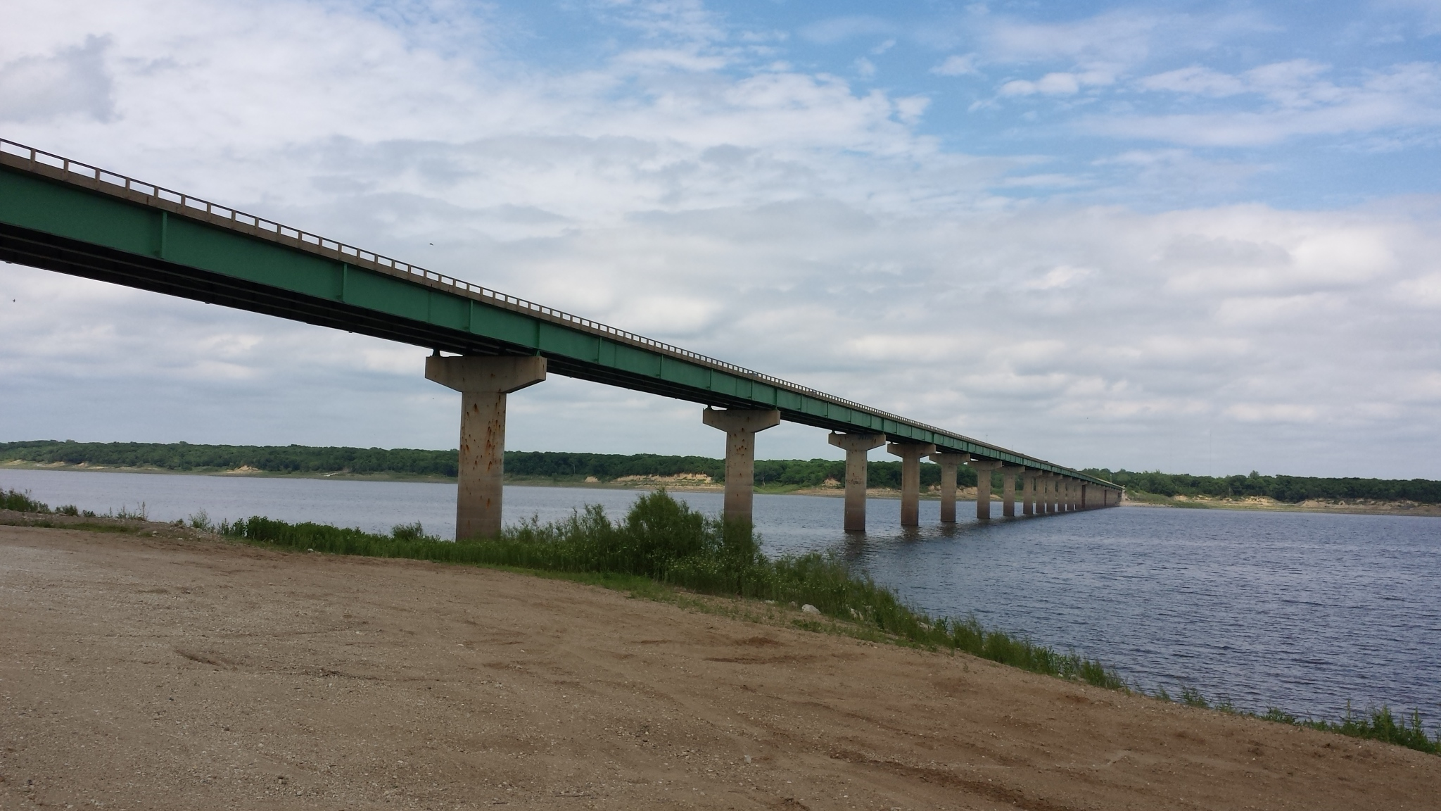 The Mile Long Bridge carries Iowa Highway 415 over Saylorville Lake near Polk City, Iowa.